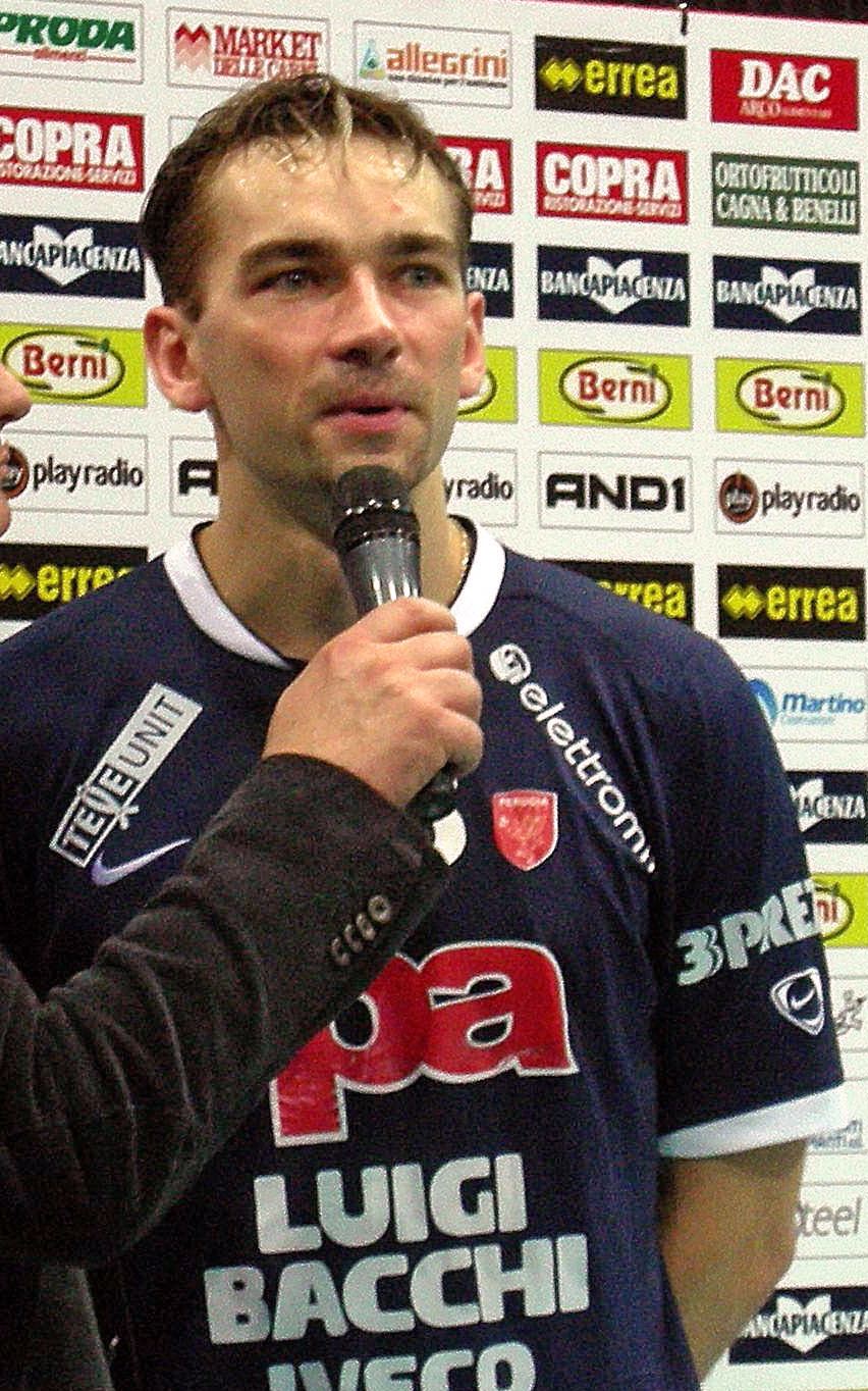 I took this picture during a volleyball match in Piacenza